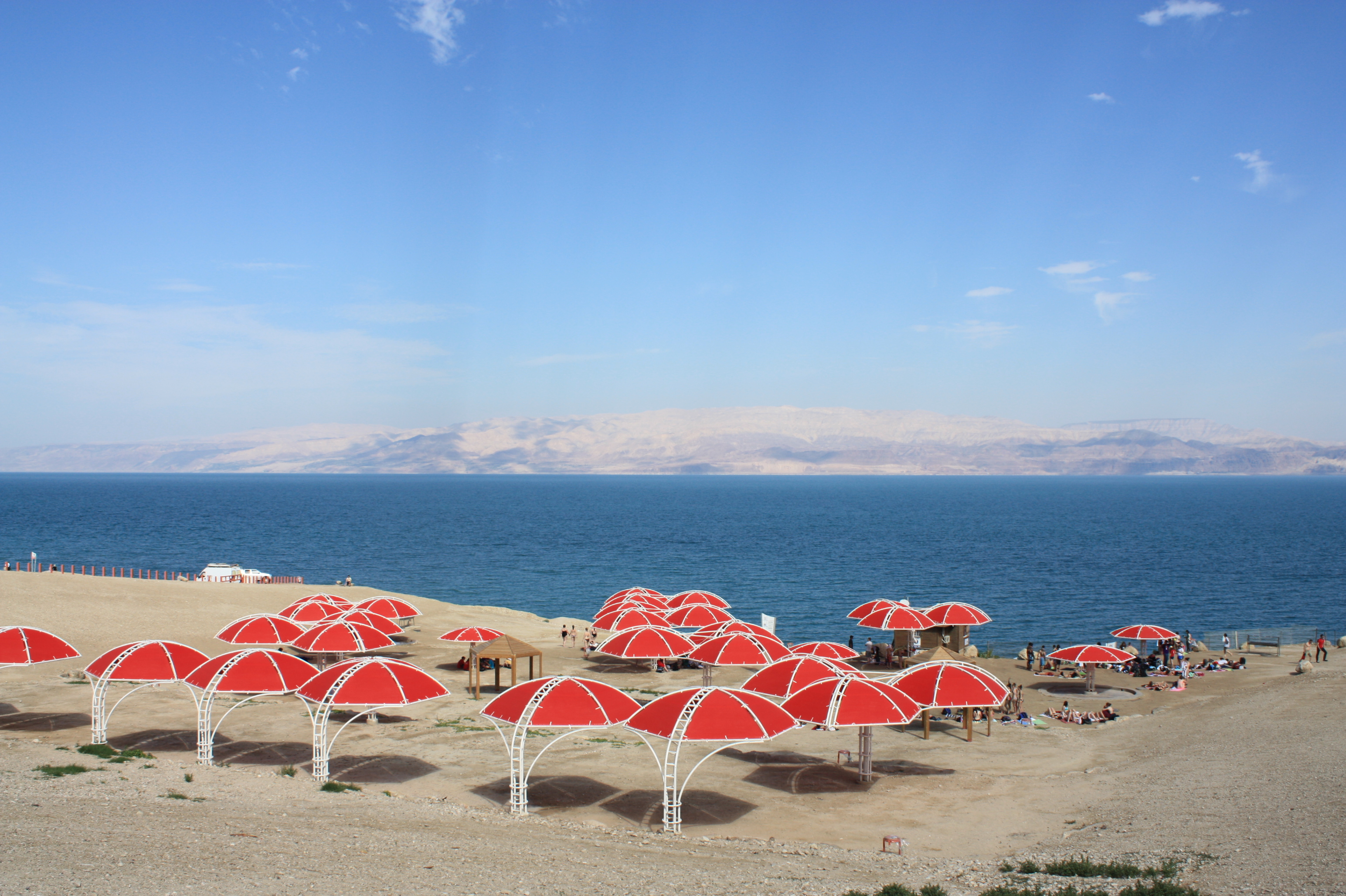 Ein Gedi Beach, The Dead Sea, Israel